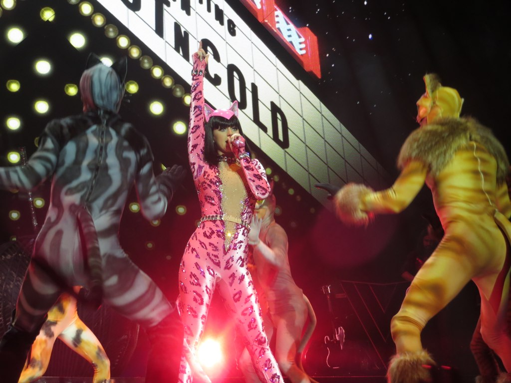 Katy Perry performing "Hot n Cold", The Prismatic World Tour, Glasgow SSE Hydro 17 May 2014